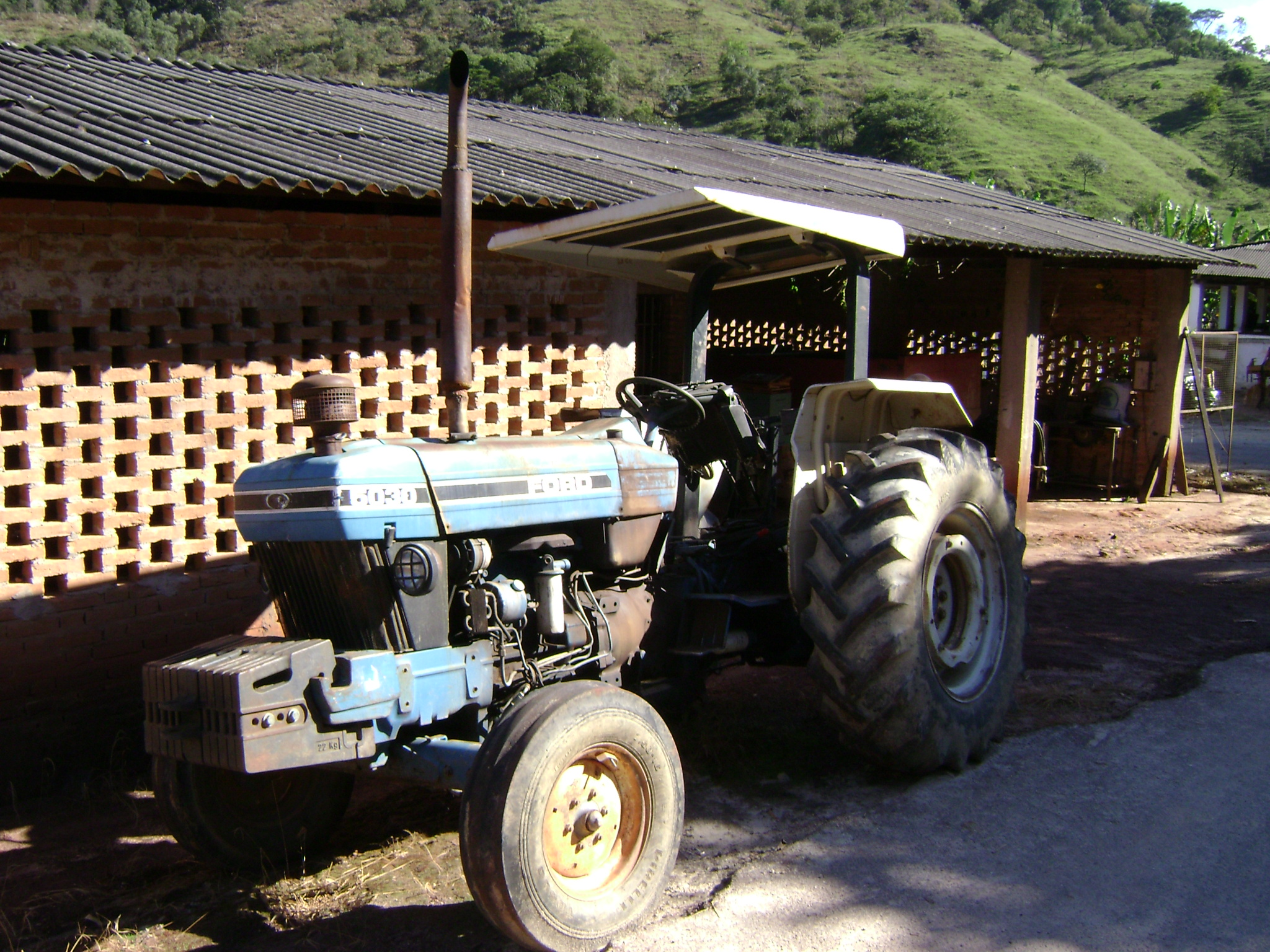 Ford 5030 tractor in Brazil.